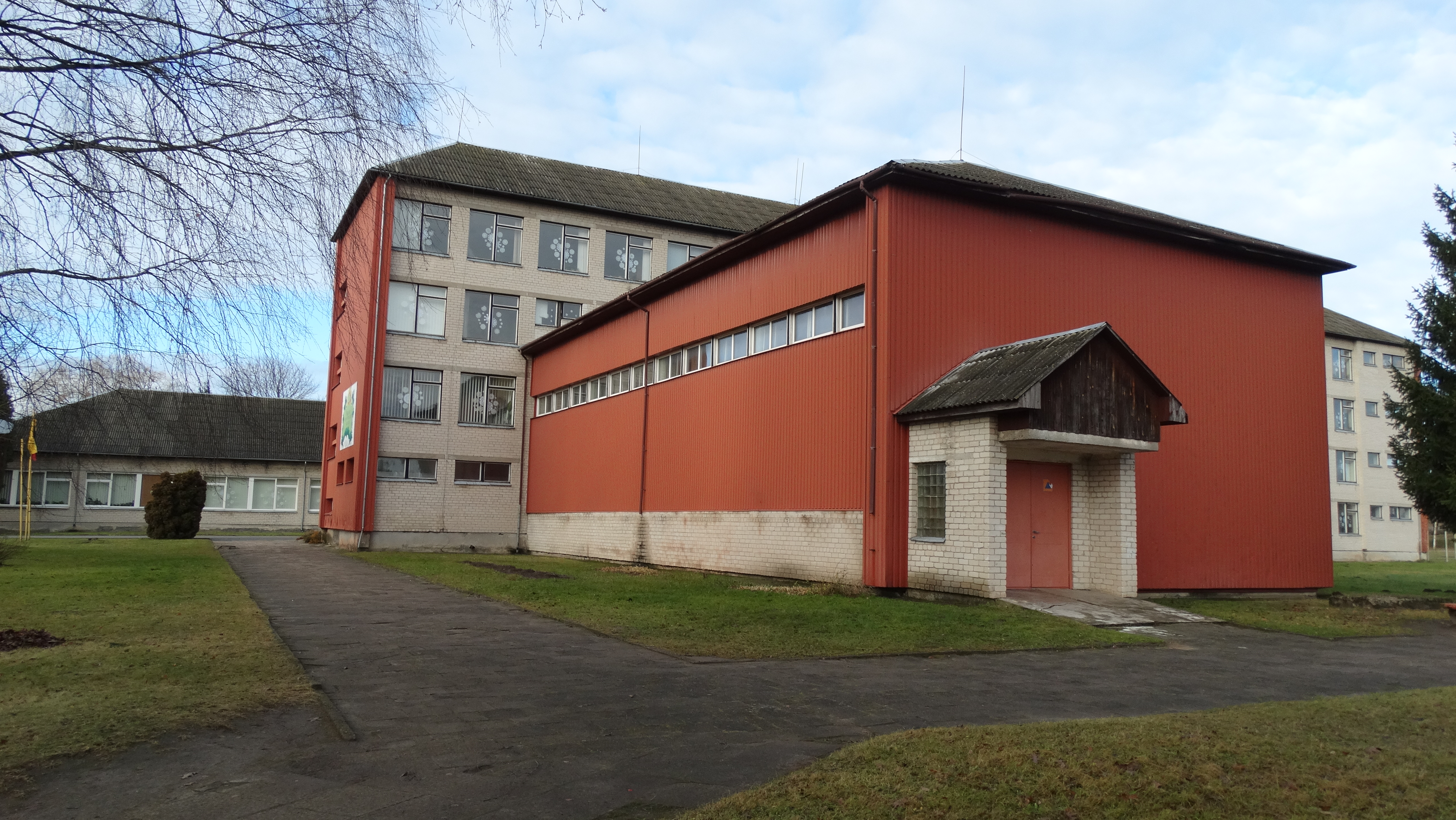 Gymnasium in Veliuona, Jurbarkas district, Lithuania